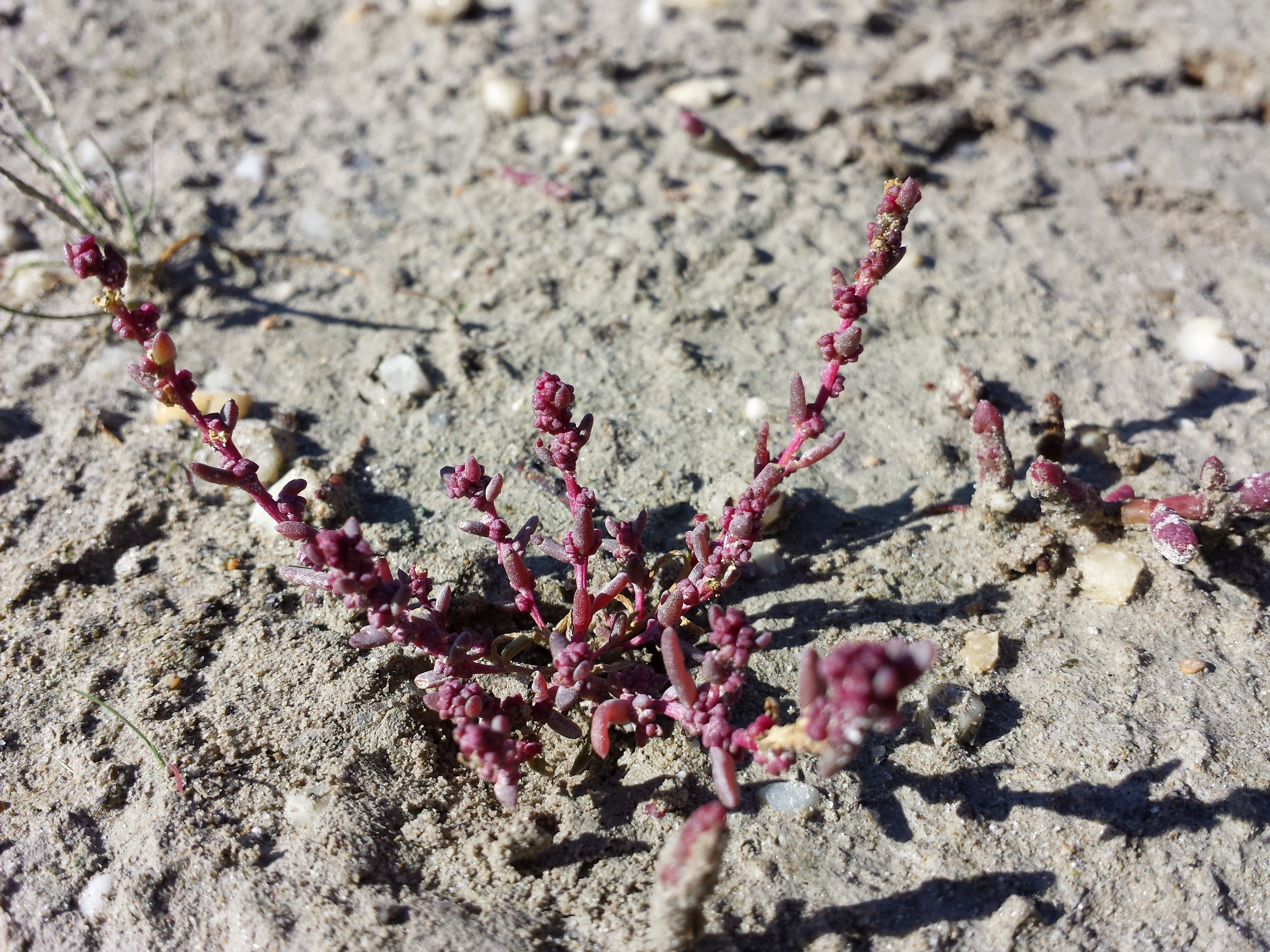 Habitus Taxon: Suaeda prostrata (sensu Fischer et al. EfÖLS 2008; det M. A. Fischer 2013-10-12) Location: small salt lake near Podersdorf, district Neusiedl am See, Burgenland, Austria - ca. 120 m a.s.l. Habitat: dried-out small salt lake